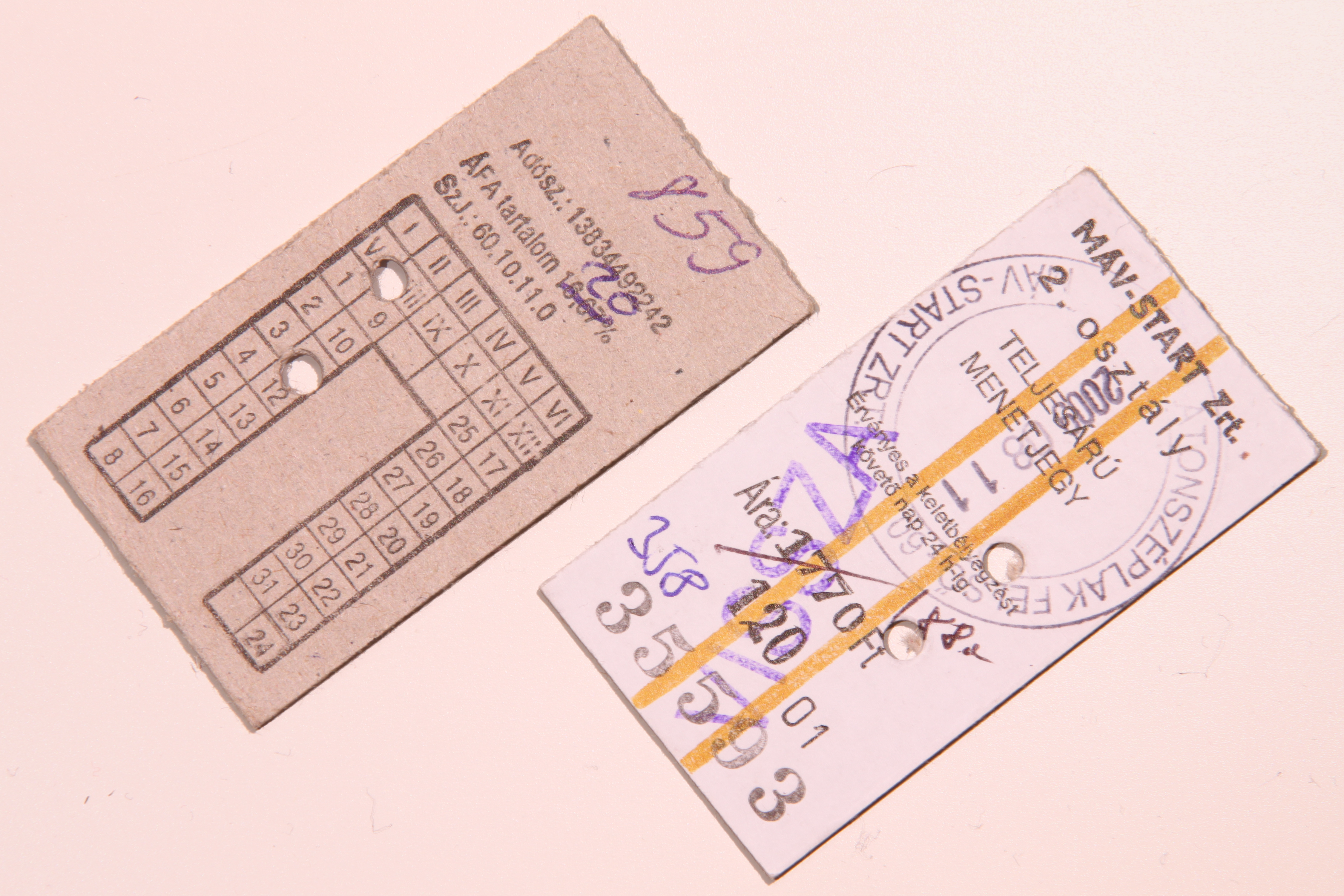 Edmonson train ticket, bought in the summer of 2009 at the station Balatonszéplak felső.